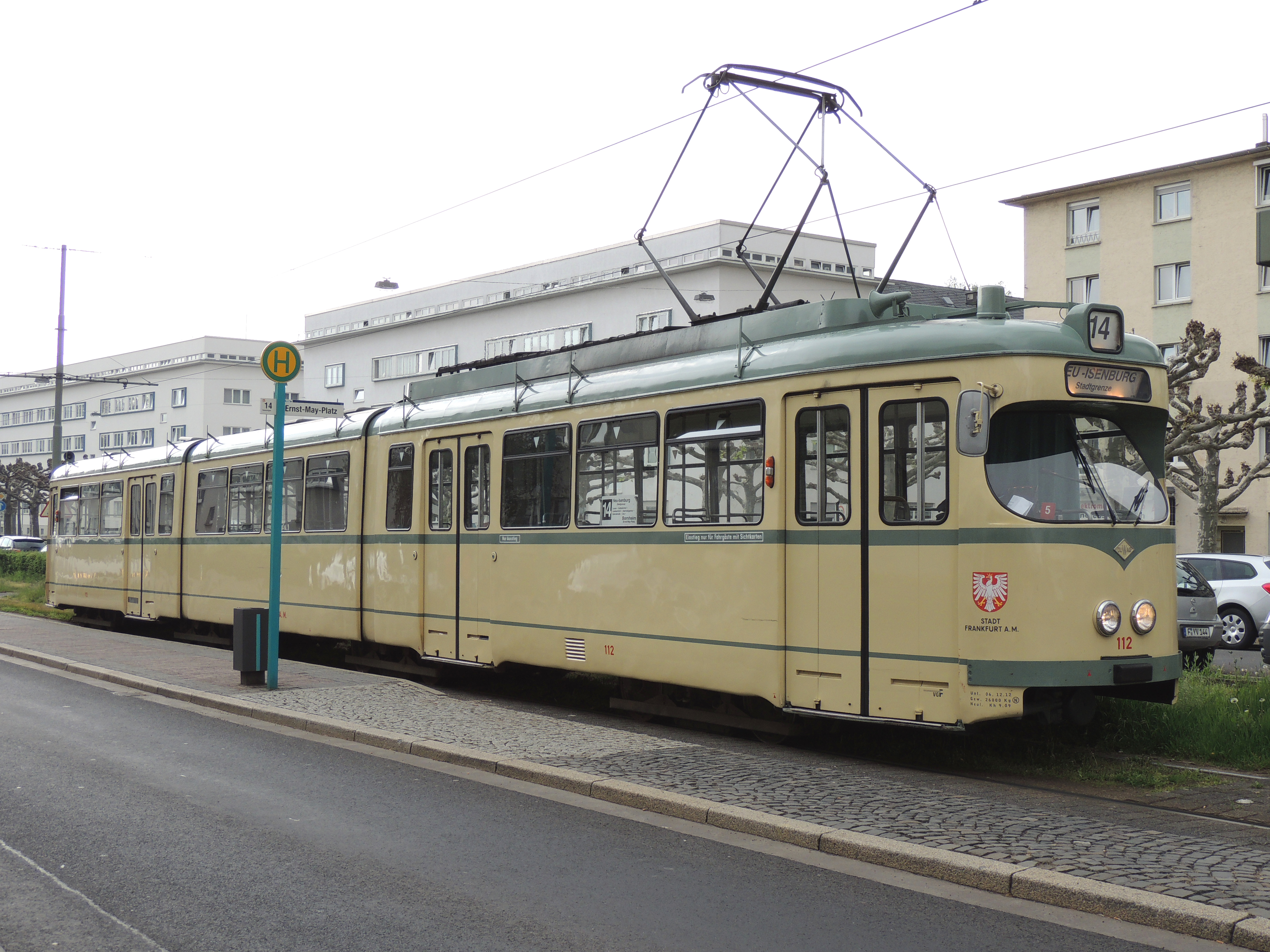 VGF type N railcar 112 at Ernst-May-Platz, Bornheim, Frankfurt am Main, Germany, May 7th, 2013